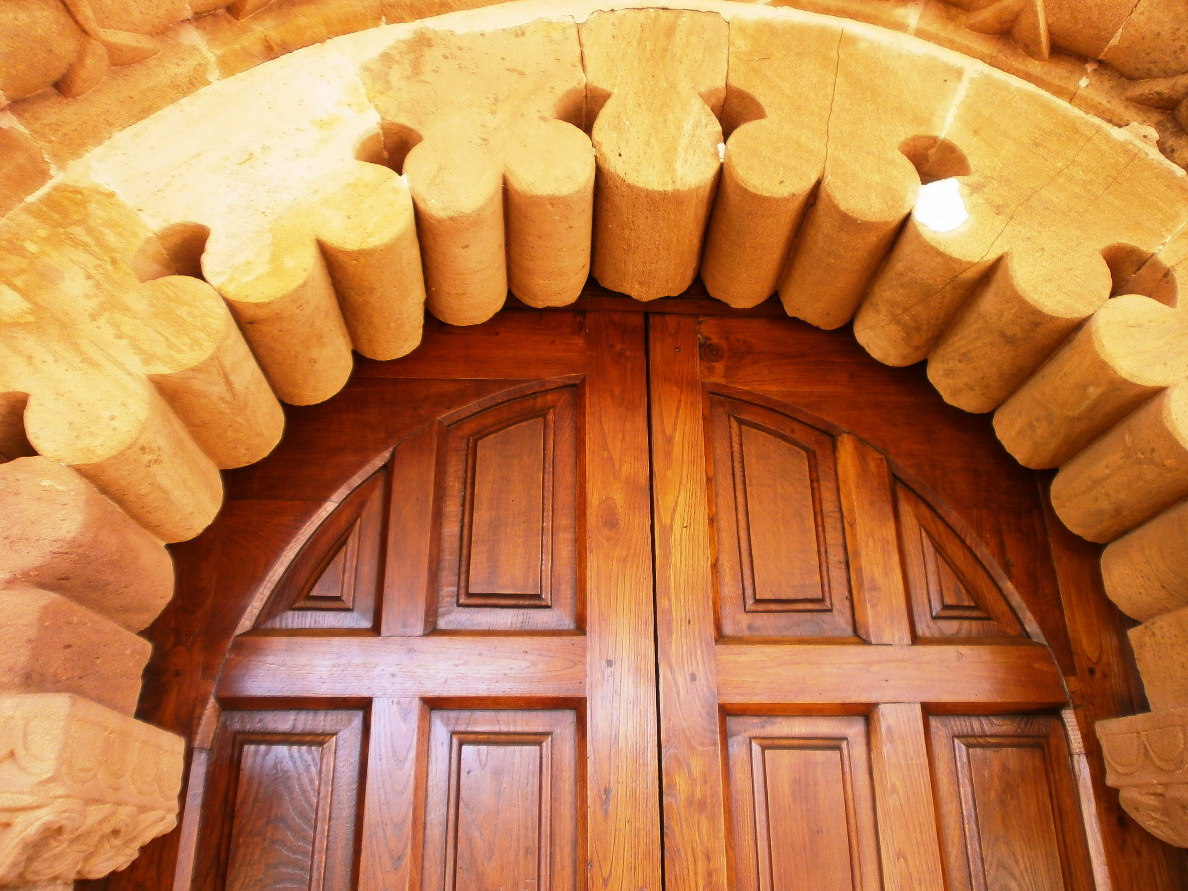 Lugás-Detalle de los rollos de puerta lateral